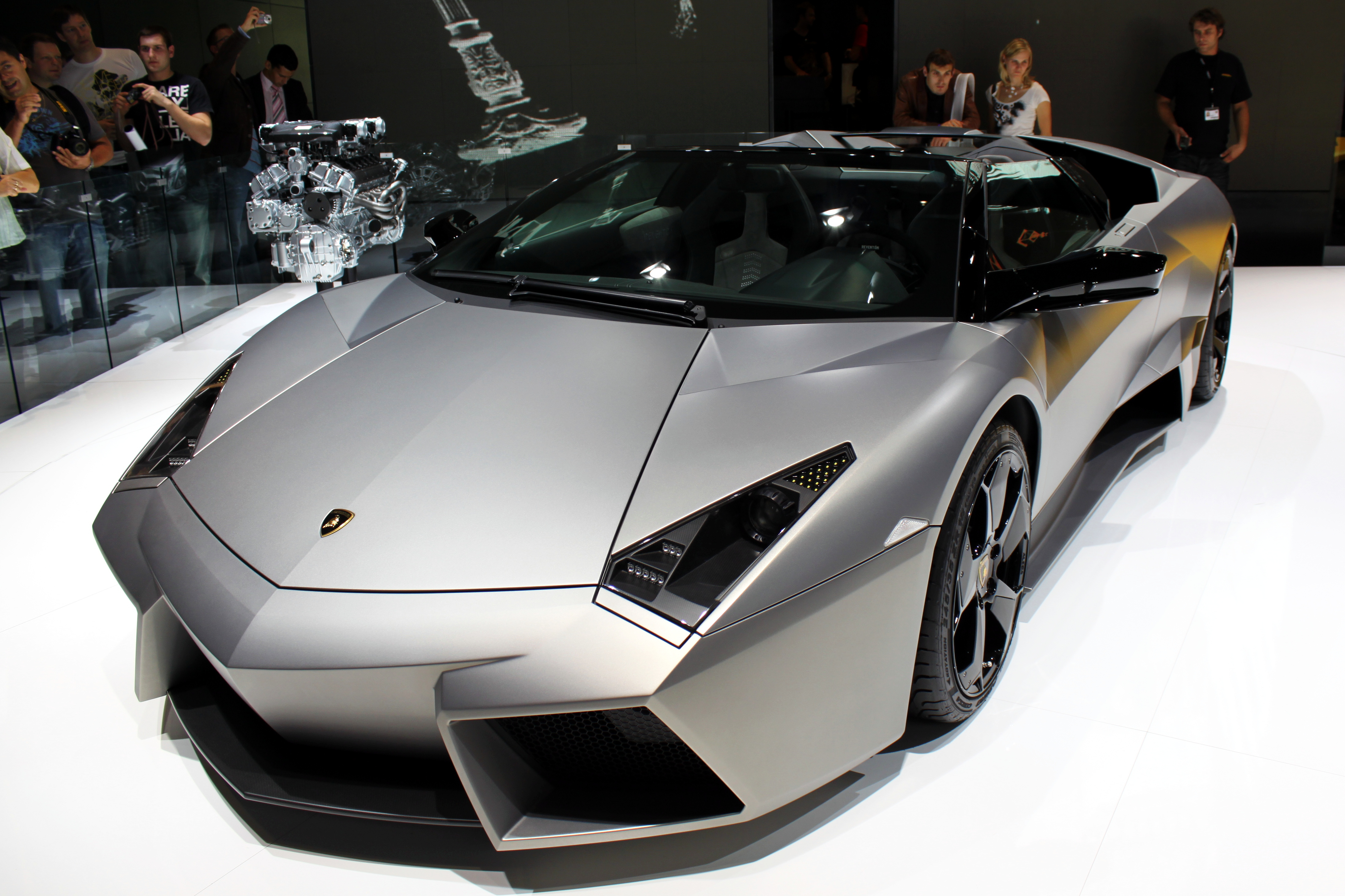 The Lamborghini Reventon in 2009 IAA exhibition in Frankfurt, Germany.